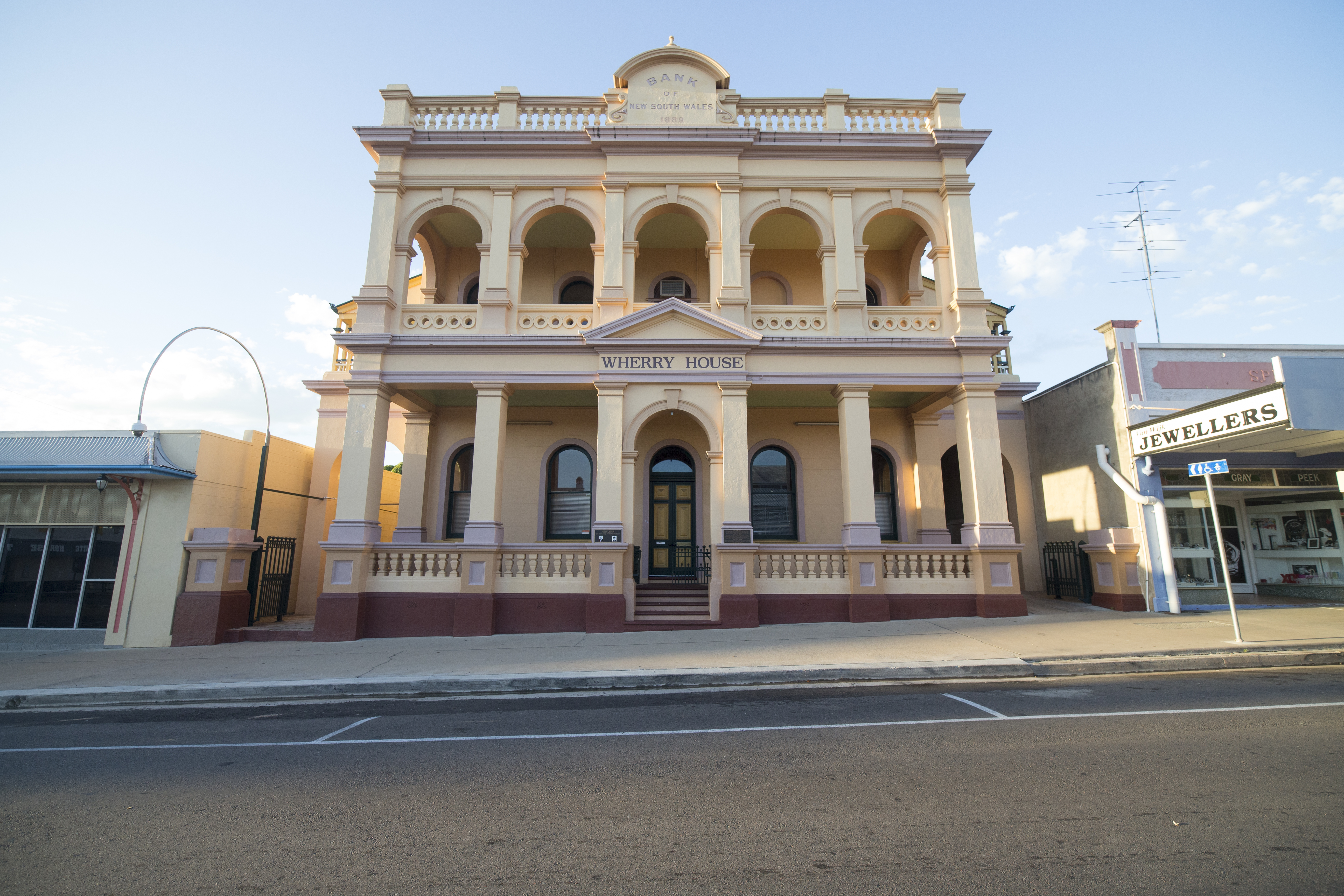 The Bank of New South Wales building could tell a few tales. Charters Towers